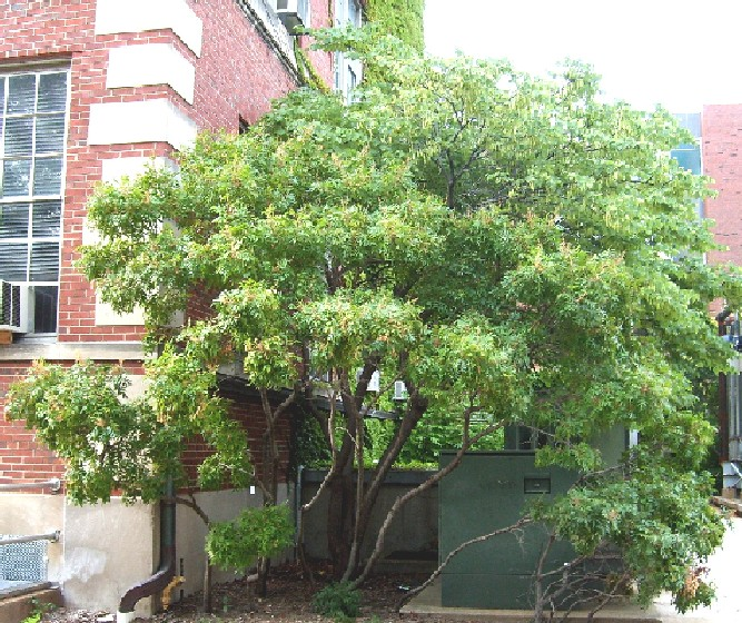 Rhus copallinum (Shining Sumac, Winged Sumac) at Illinois State University on the south side of Felmley Hall on August 14, 2009.